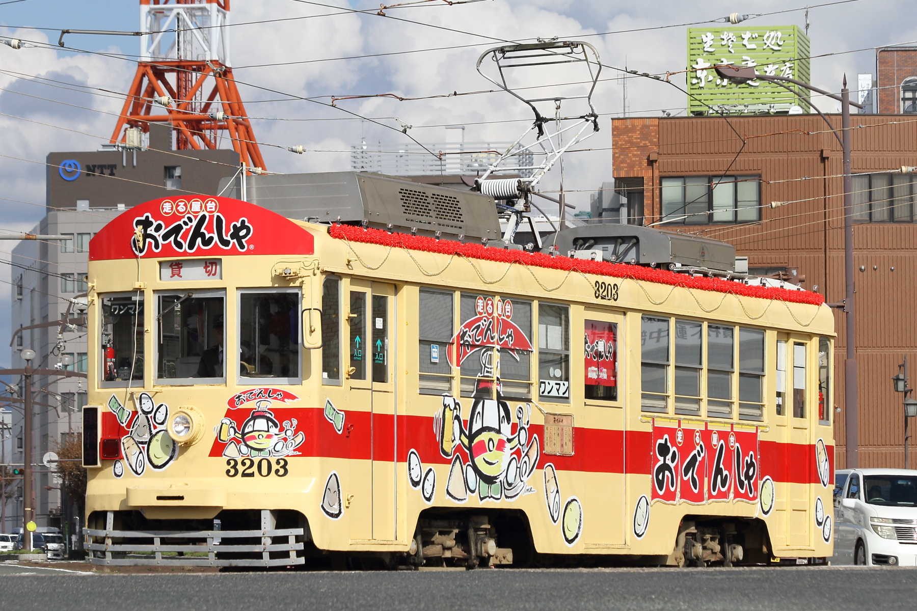 Toyohashi Railroad No.3203